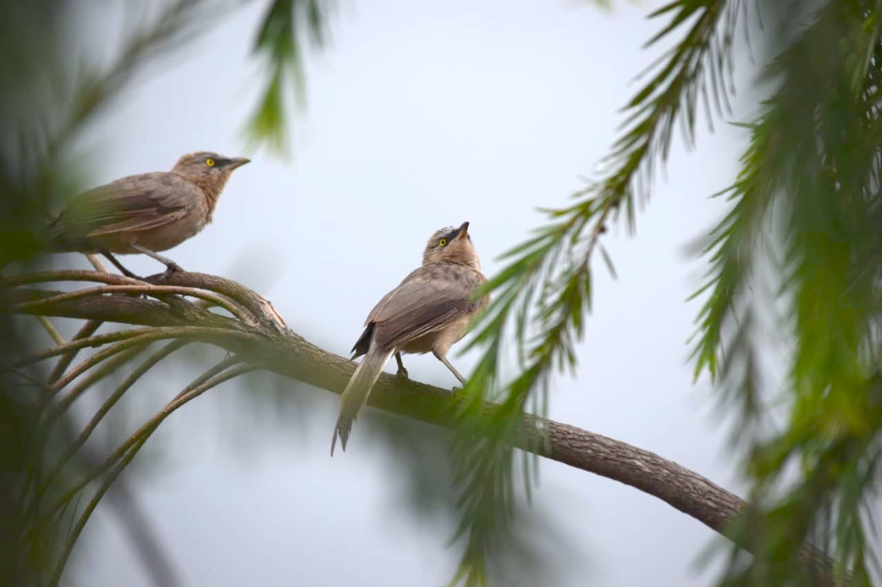 Two Large grey babblers perching on a Bottlebrush branch(Maharashtra, India) on a rainy day.